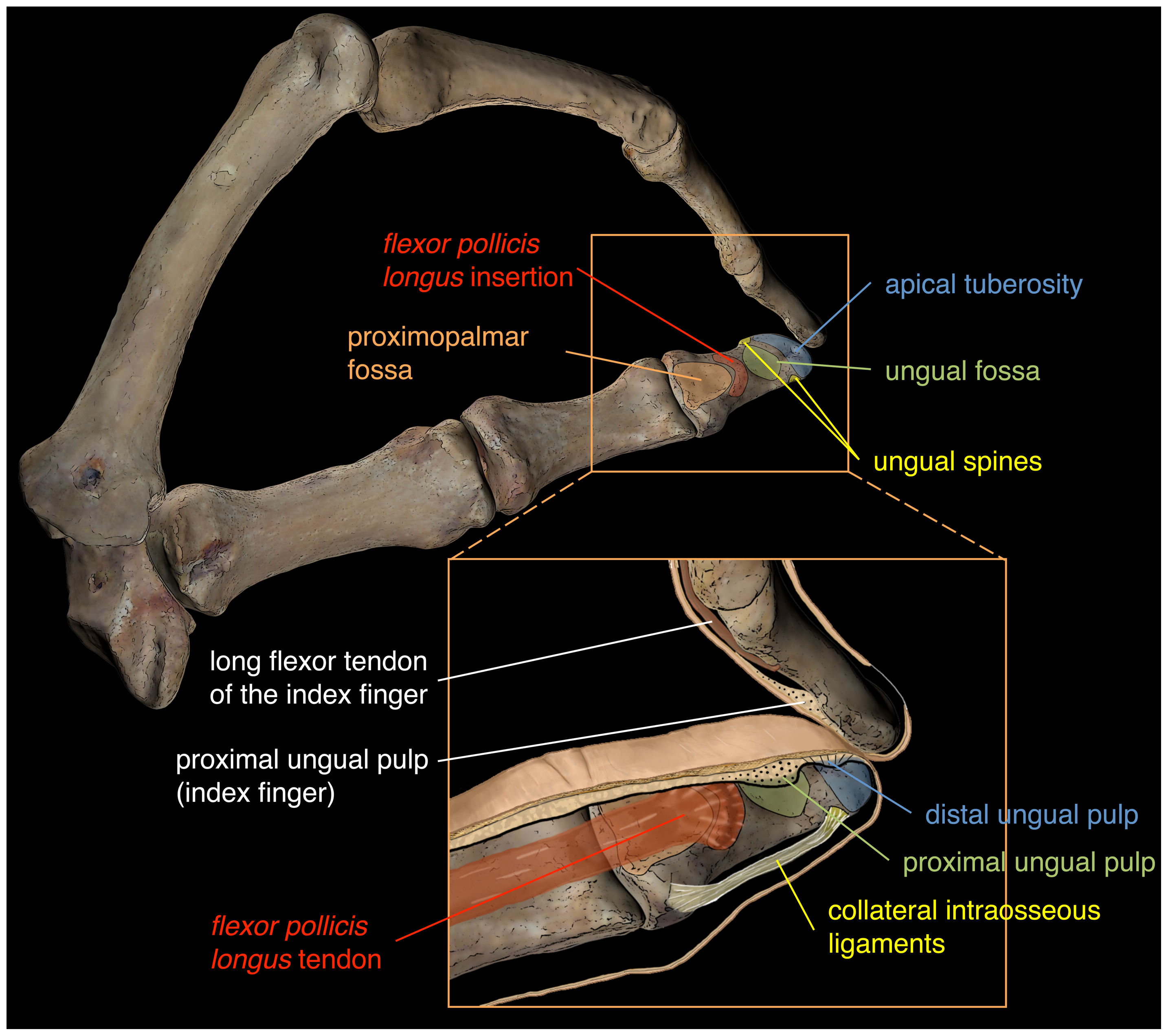 Modern human thumb and index finger (right hand) during pad-to-pad precision grasping in ulnar view. The box shows the anatomy of the pollical distal phalanx and its relationship with soft structures related to refined manipulation: a huge proximopalmar fossa (orange), associated with a palmarly protruding ridge (red) for insertion of the flexor pollicis longus; a compartmentalized digital pulp to accommodate the shape of the object being manipulated; this is reflected in the presence of an ungual fossa (green), associated to the large and mobile proximal pulp, as well as a wide apical tuberosity associated with the smaller and less mobile distal pulp; and finally, the ungual spines (yellow), where the collateral intraosseous ligaments that sustain the nail bed insert.